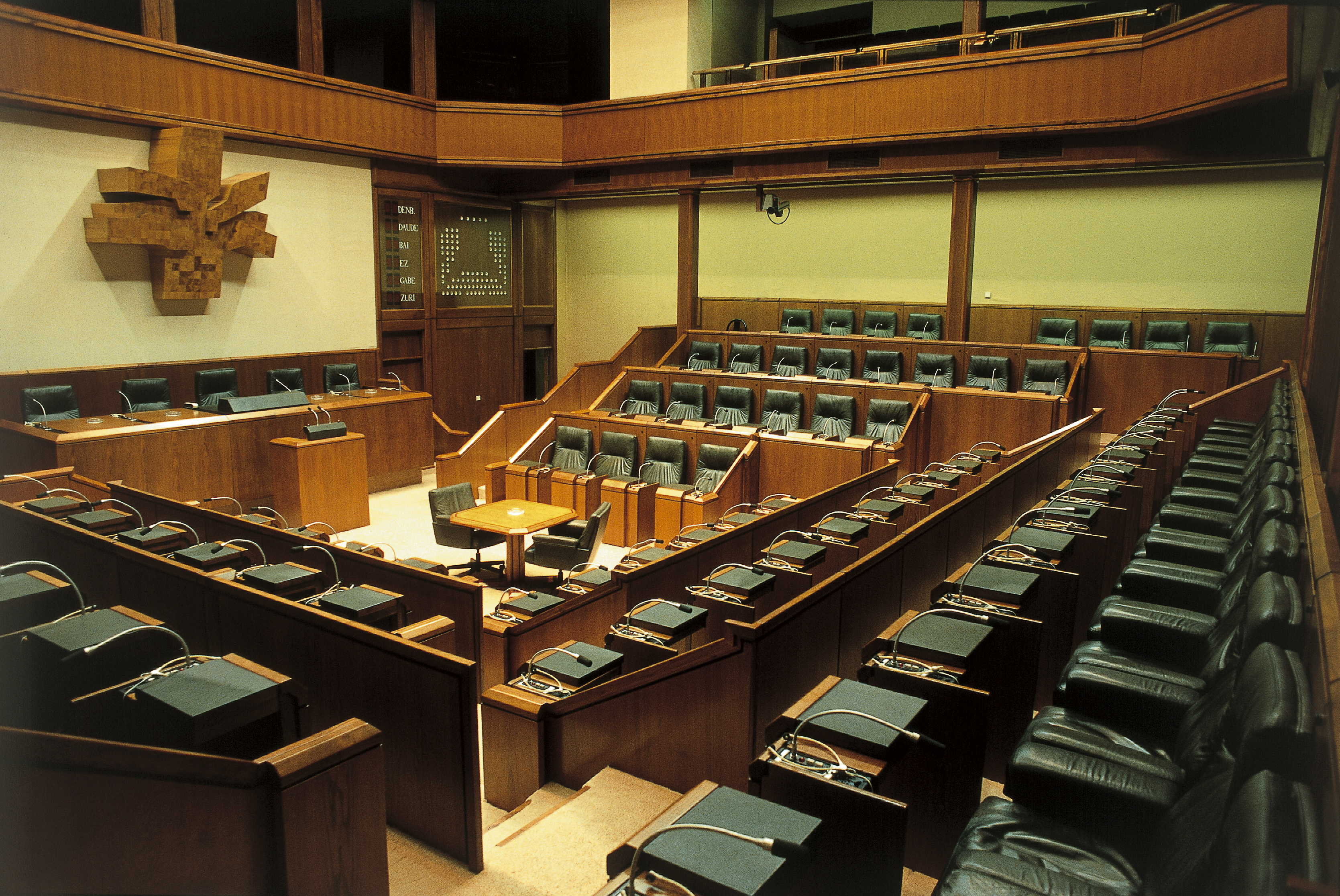 Basque Parliament. Vitoria-Gasteiz, Basque Country.